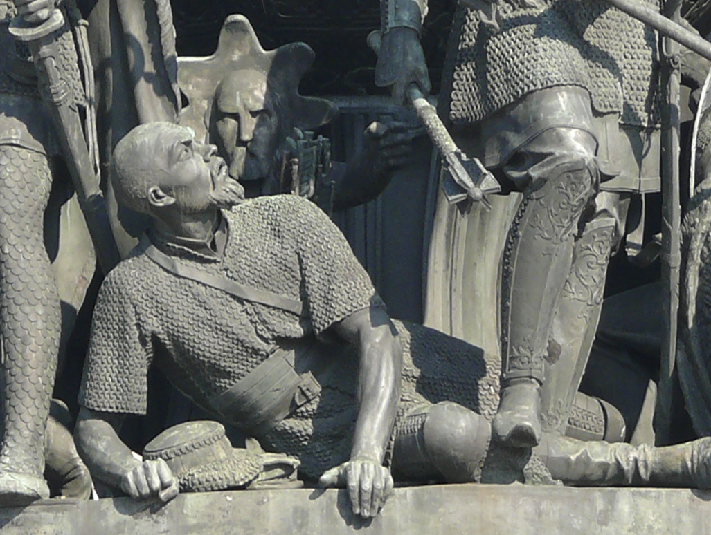 Tatar murza (symbol of tatar occupation) on the Monument «Millennium of Russia» in Veliky Novgorod